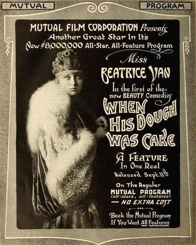 Ad for the American film When His Dough Was Cake (1915) with Beatrice Van, page 20 of the September 4, 1915 Reel Life magazine.